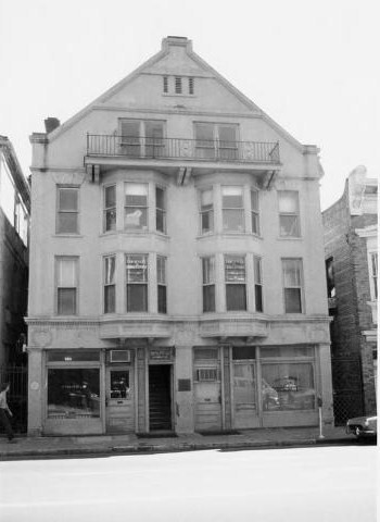 The Clark Mills Studio, #51 Broad Street, in Charleston, South Carolina. North Broad Street elevation.